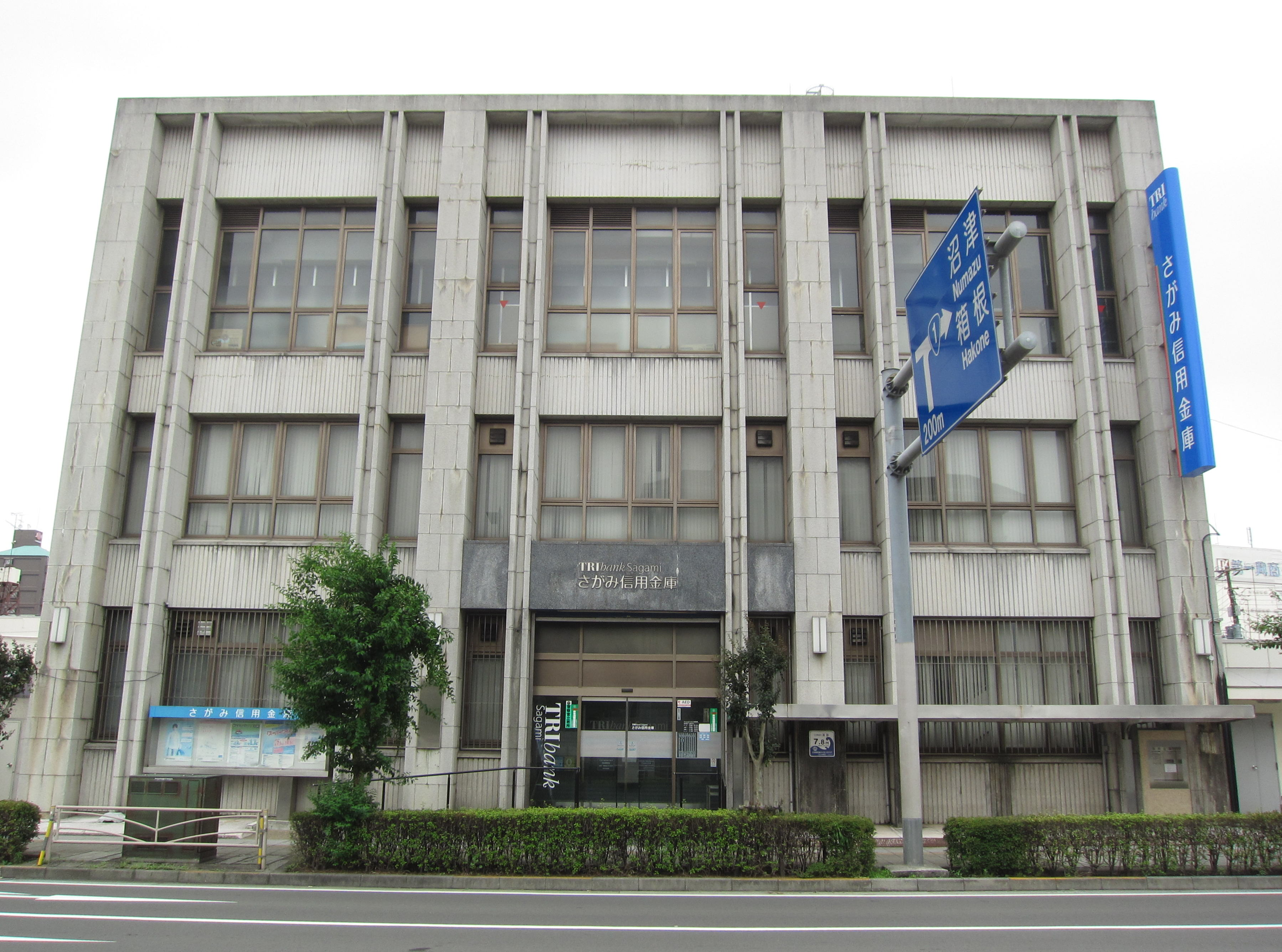 Sagami Shinkin Bank